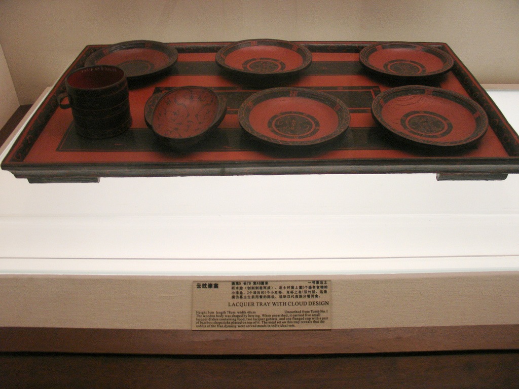 These are Chinese Western Han (202 BC - 9 AD) era lacquerwares and lacquer tray unearthed from the 2nd-century-BC Han Tomb No.1 at Mawangdui, Changsha, China in 1972. Overall Height: 5cm; Length: 78cm; Width: 48cm.